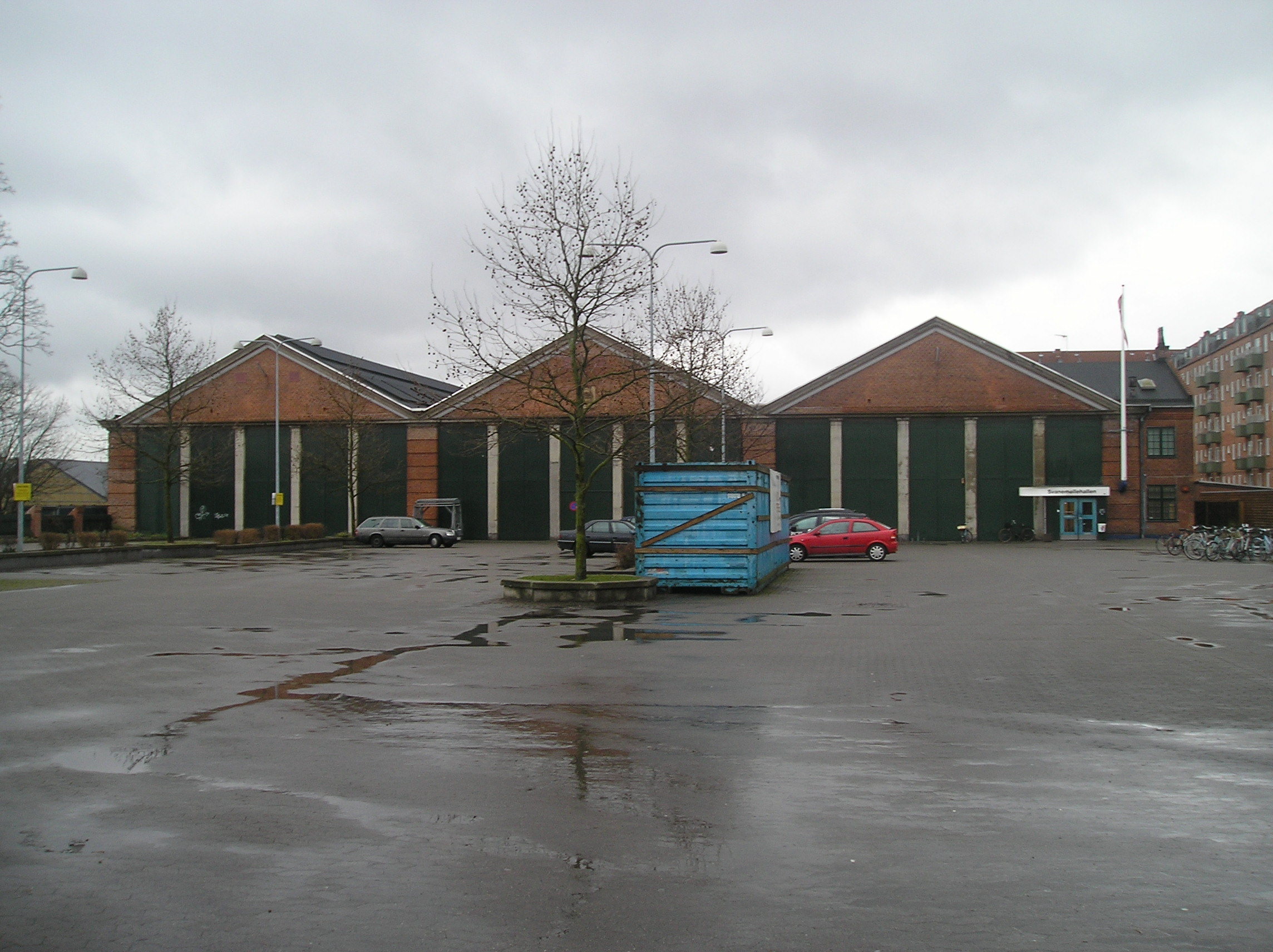 Copenhagen sports centre Svanemøllehallen. Earlier tramway depot Svanemøllen Remise.